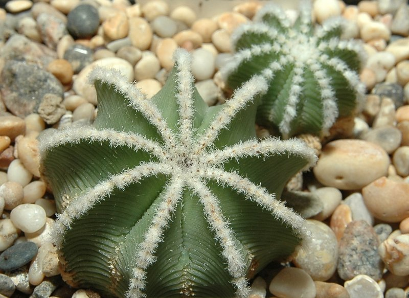 Picture taken at [1]